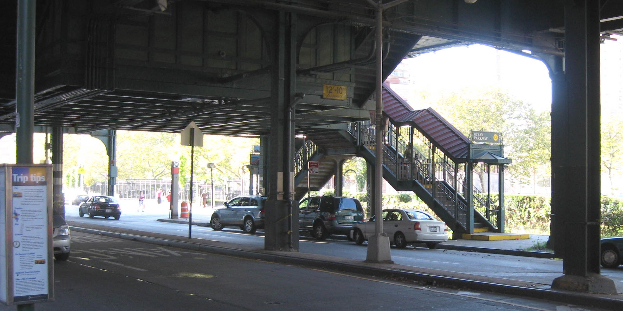 Looking north across Brighton Avenue, underneath the Brighton Line at Ocean Parkway (BMT Brighton Line) station stair on a sunny afternoon